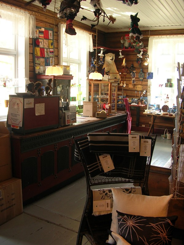 Santa Claus post office in Drøbak (Norway)